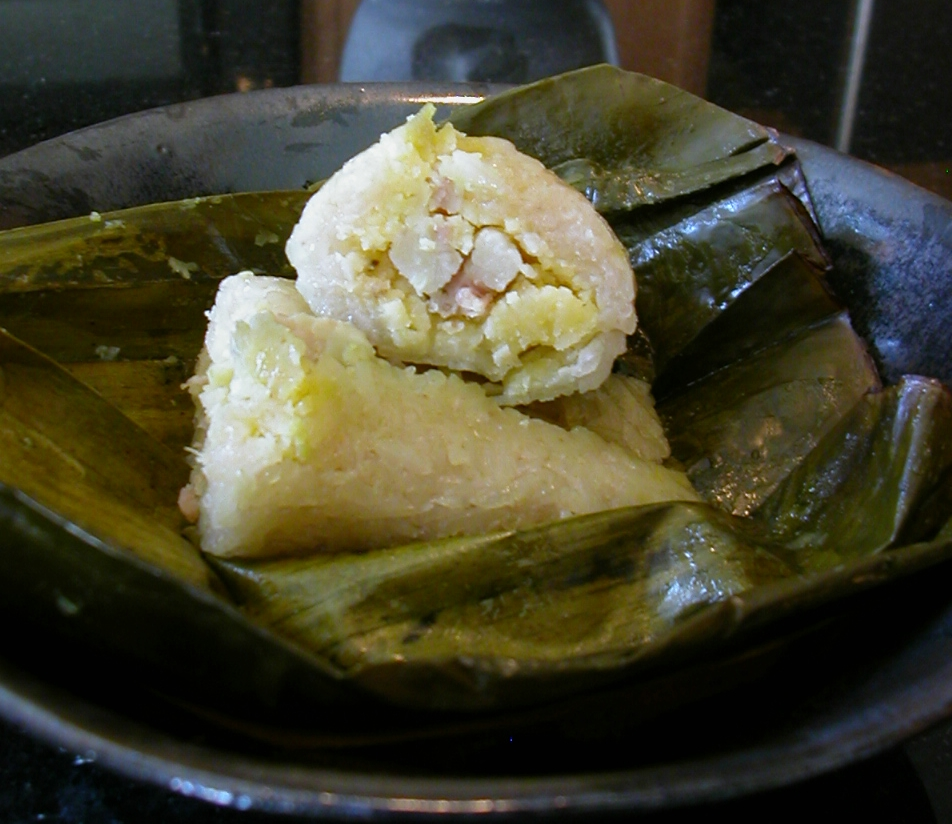 Khao tom, a Lao dessert of sticky rice steamed in banana leaf.